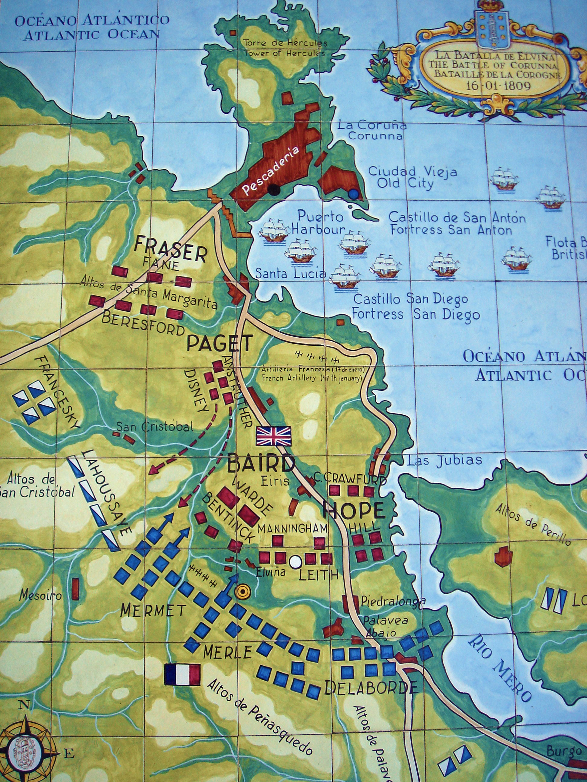 Map of the battle. Map of the Battle of Corunna in the Napoleonic wars. Red squares represent British infantry, blue squares represent French infantry and blue and white squares represent French cavalry. The white dot represents the place in which Moore was fatally wounded, the black dot the place in which he died and the blue dot the place in which he is buried now. The yellow dot represents the place in which this tiled map is located.